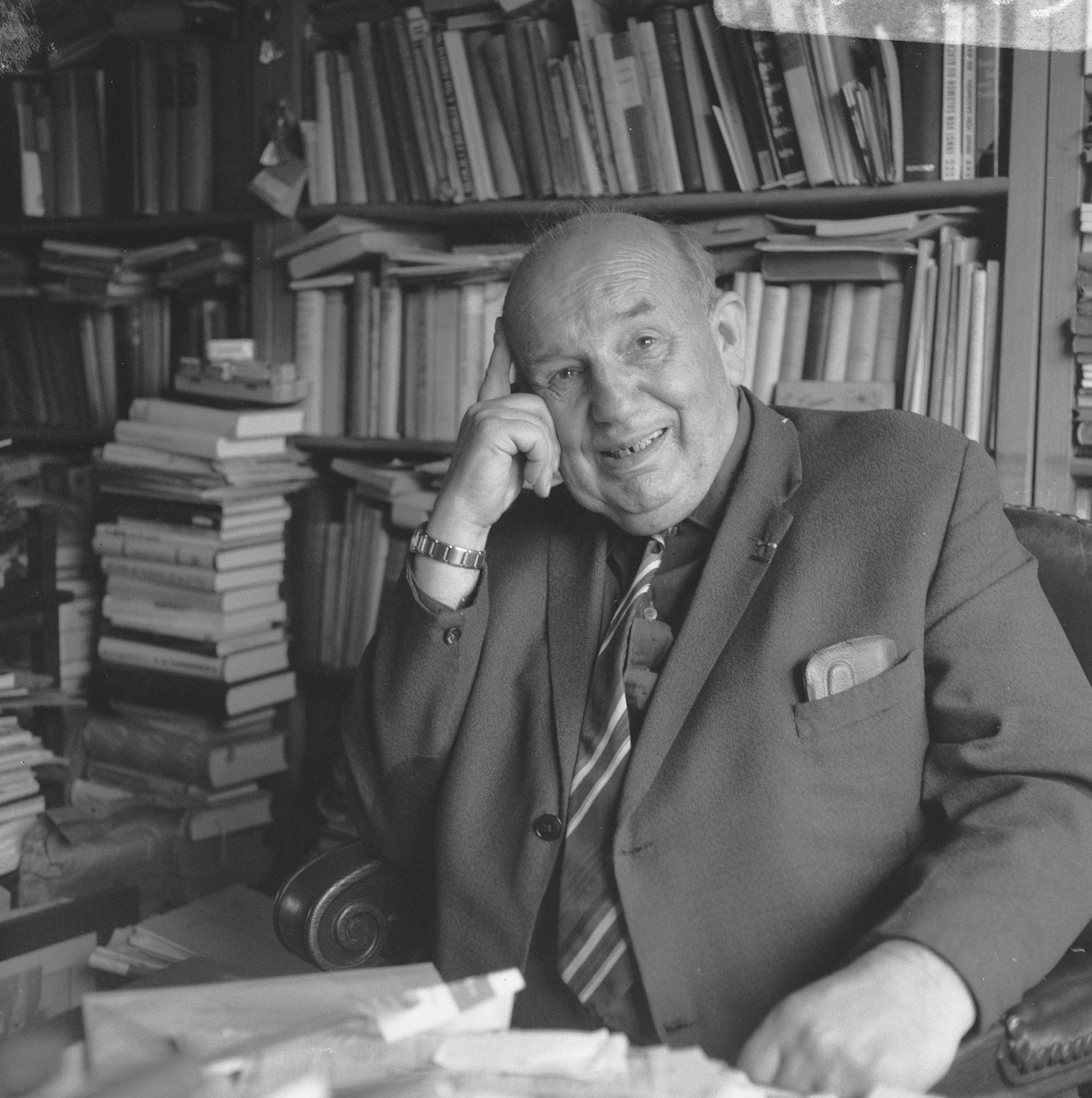 Nico Rost (1896-1967), Dutch writer, during his 70th birthday